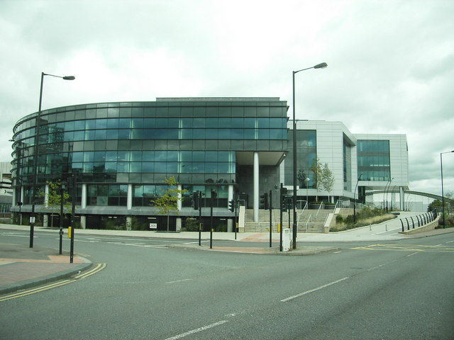 Sheffield Digital Campus, Sheaf Lane, Sheffield Opened March 2009 the U.K's first purpose built centre for the digital and creative industries.